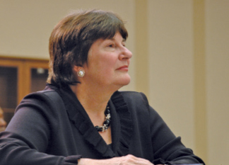 Photograph of the Honorable M. Margaret McKeown, a federal judge on the United States Court of Appeals for the Ninth Circuit